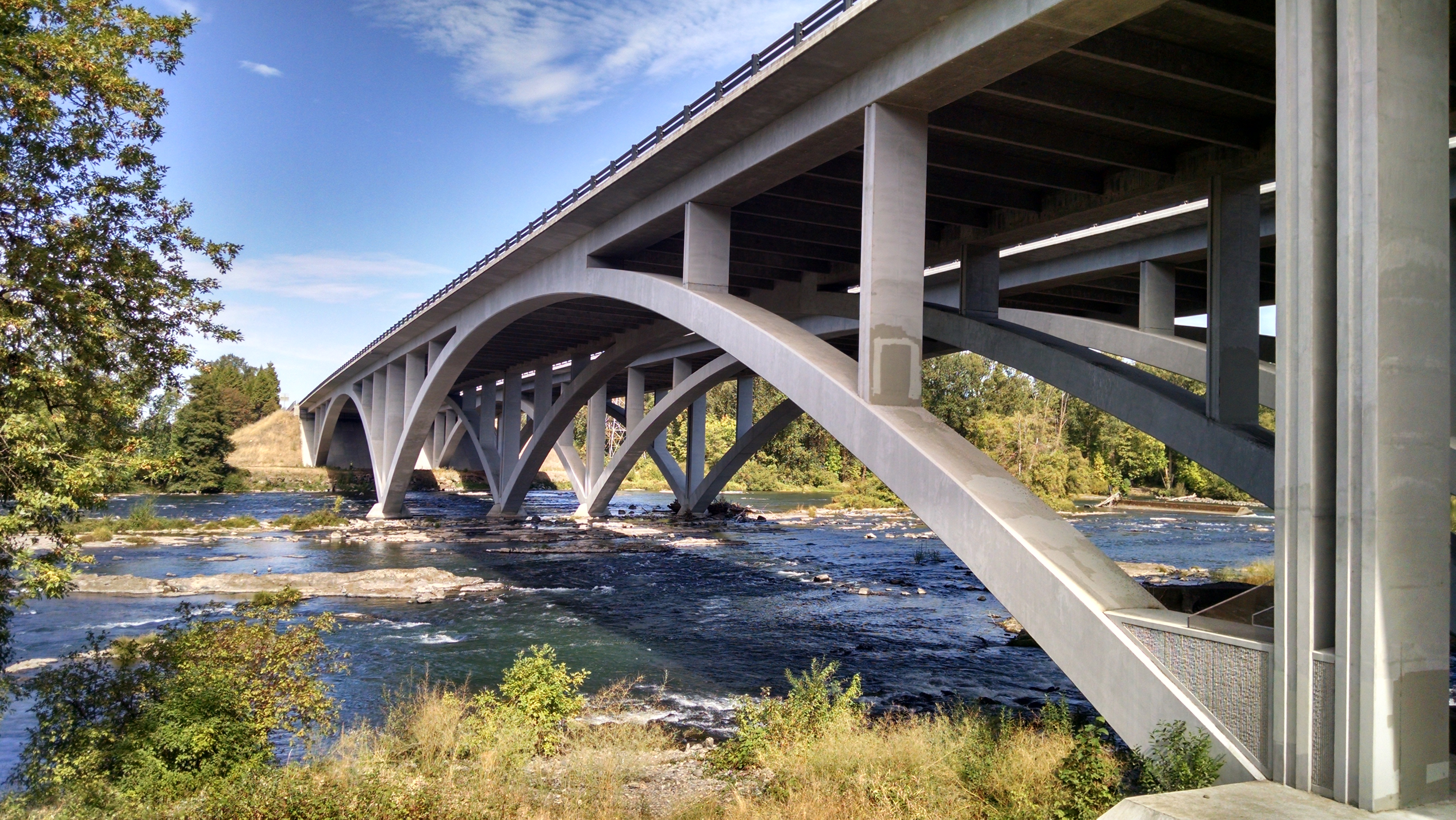 Willamette River Bridge_Shippey